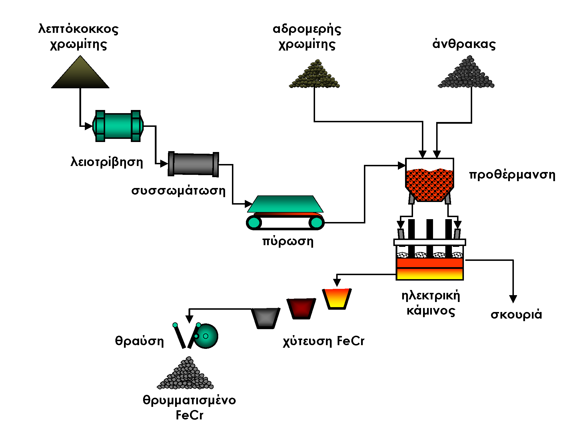 Ferrochrome production, greek diagram